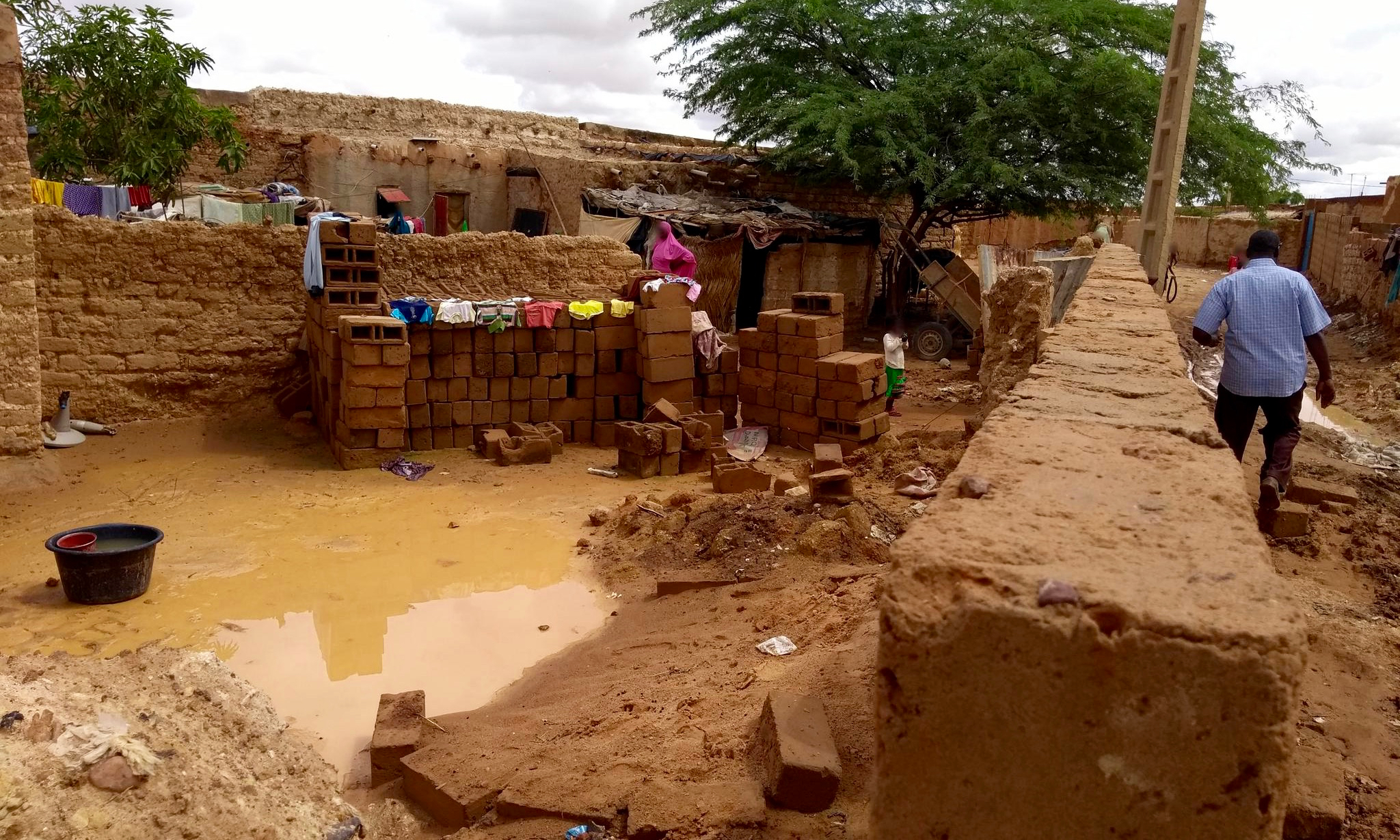 Street in Pays Bas, Niamey.